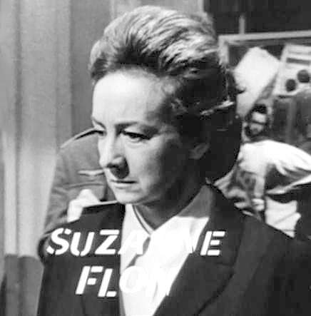 Suzanne Flon in The Train - trailer (cropped screenshot)